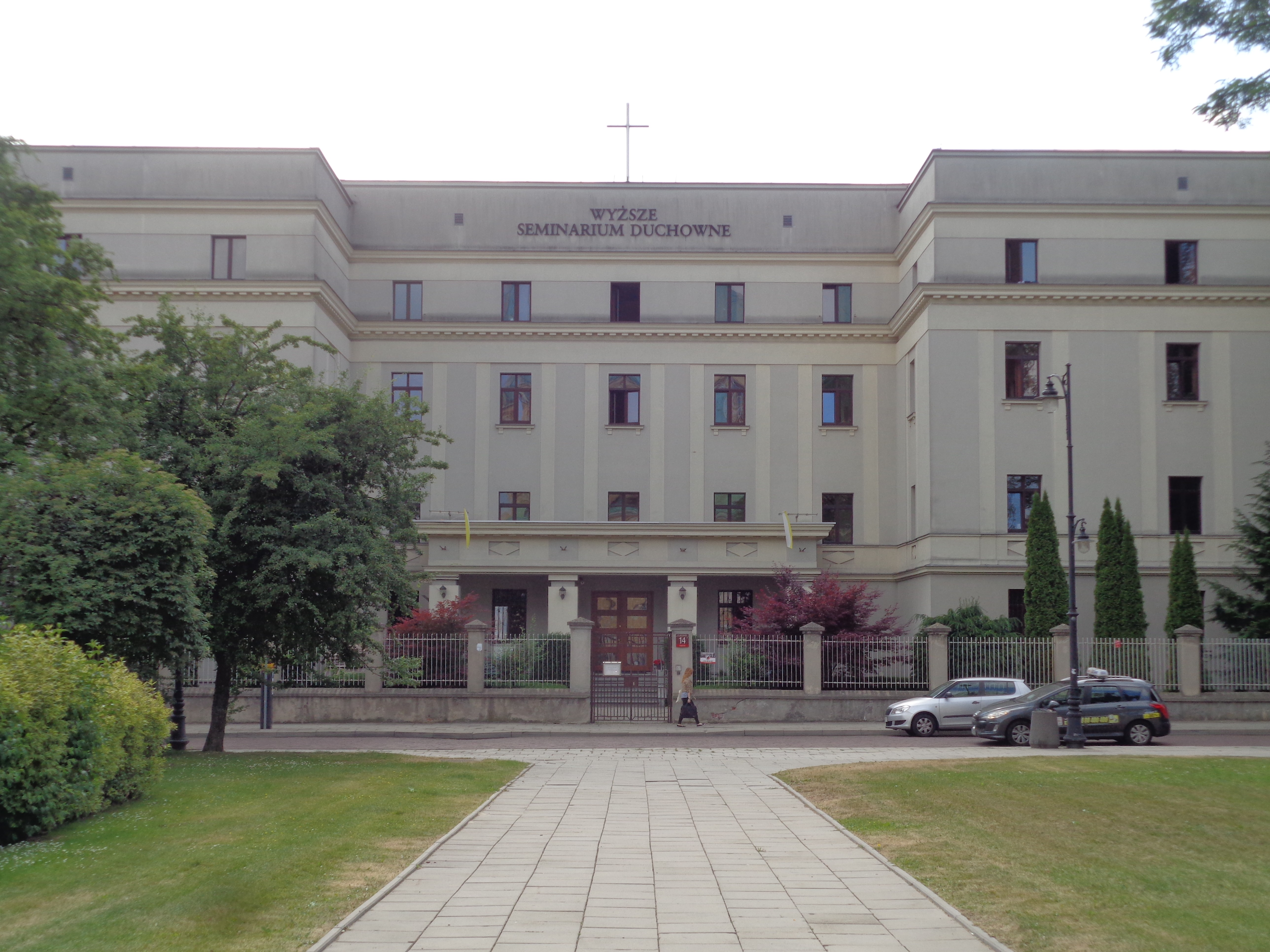 Higher Clergy Seminar in Łódź.